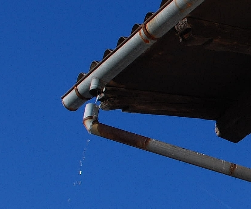 A rain gutter at a house in Telče (Municipality of Sevnica, Slovenia)